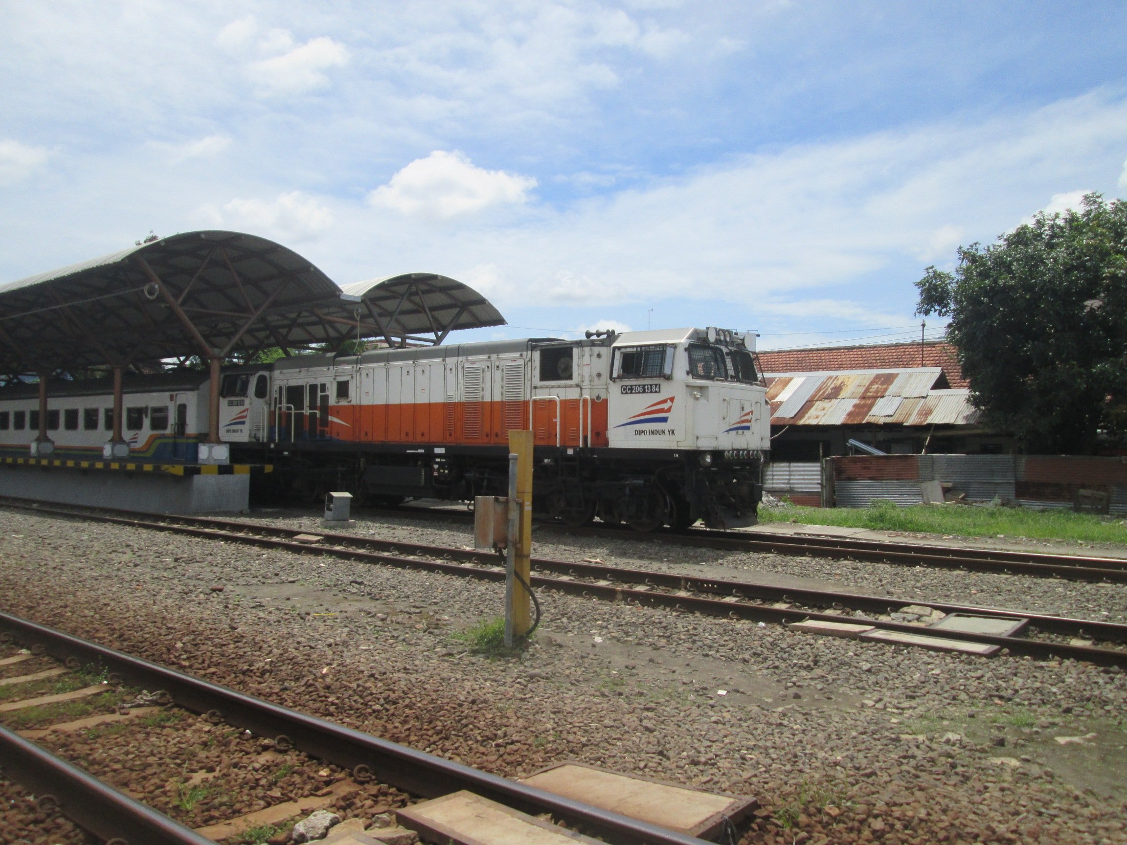 CC 206 13 84 and Sido Mukti Train arrived at Tugu Railway Station.